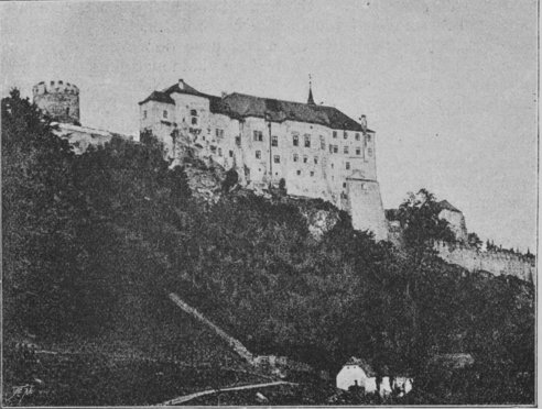 Český Šternberk castle from the South-East; an illustration to a news article Šternberk na Sázavě (Šternberk upon Sázava), describing the author´s passion for photography.